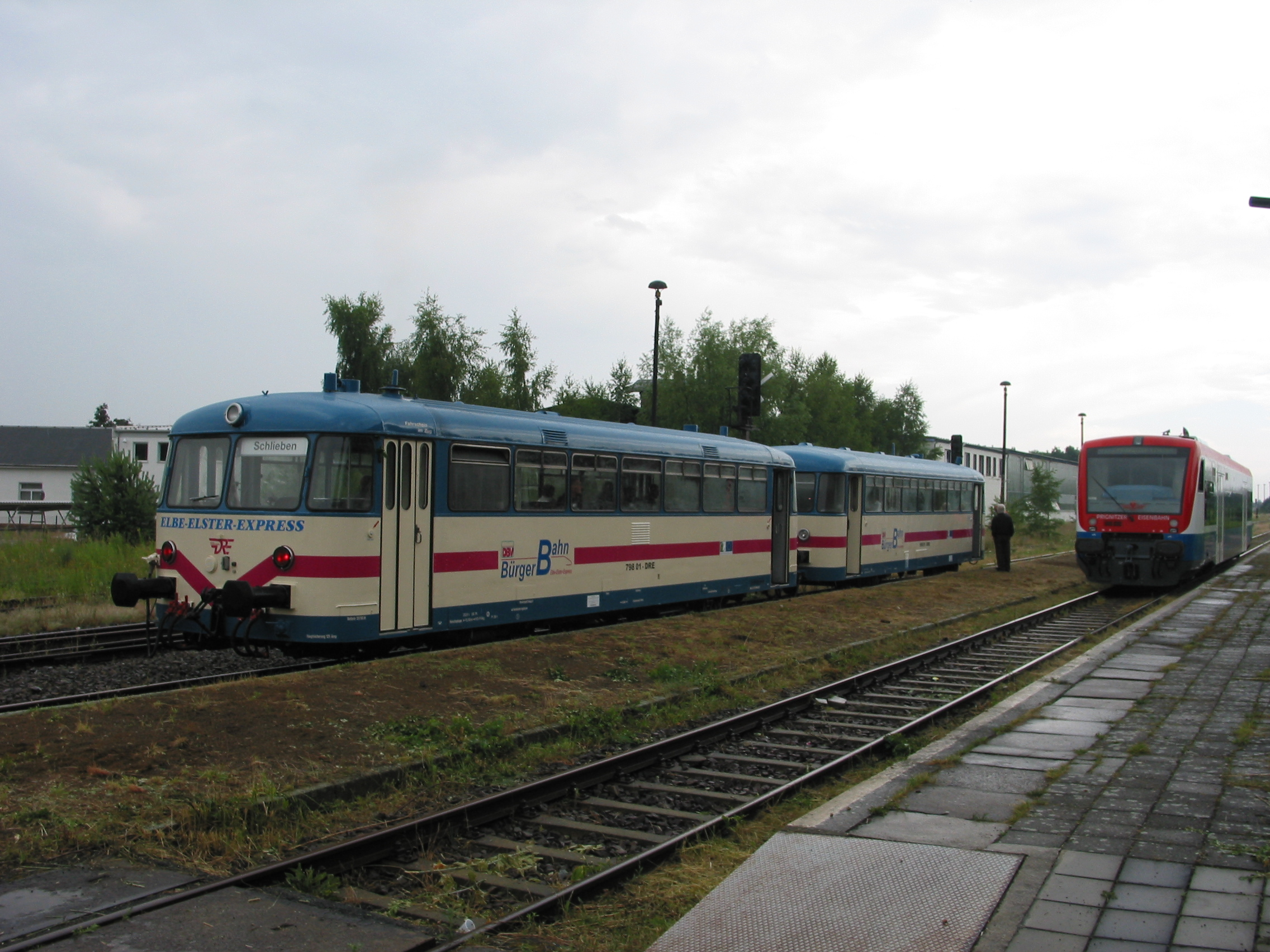 Inaugaration tour of the Elbe-Elster-Express in the station Herzberg (Elster) Stadt